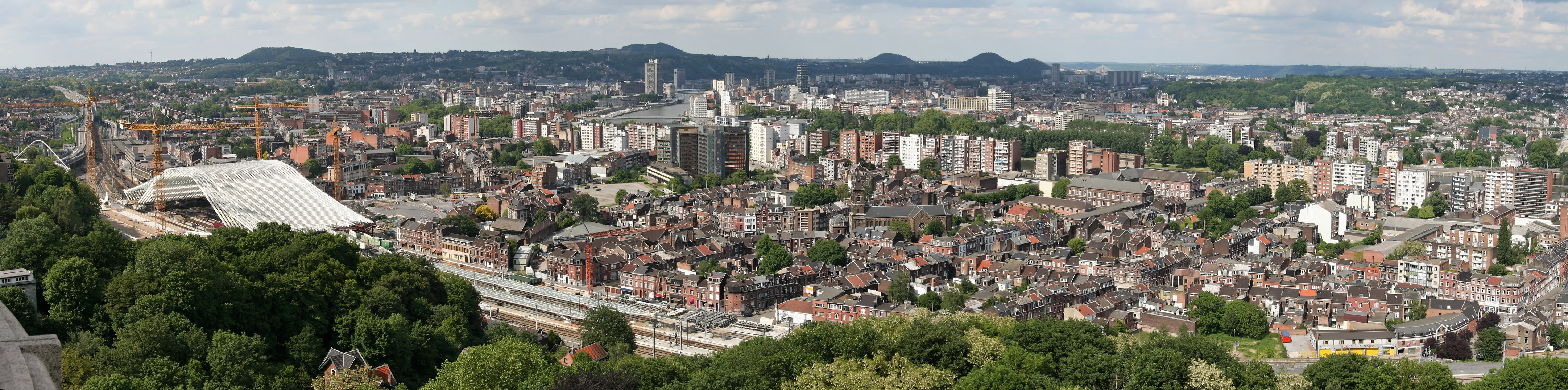 Panorama of Liège, Belgium. The white building on the left is the new high speed train station (still under construction) from the spanish architect "Santiago Calatrava".